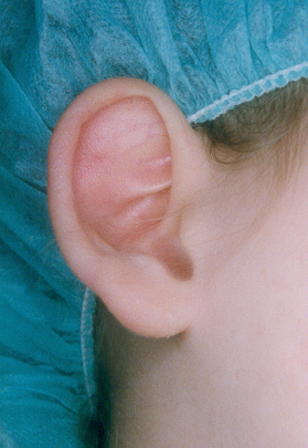 Poorly folded antihelix of the ear